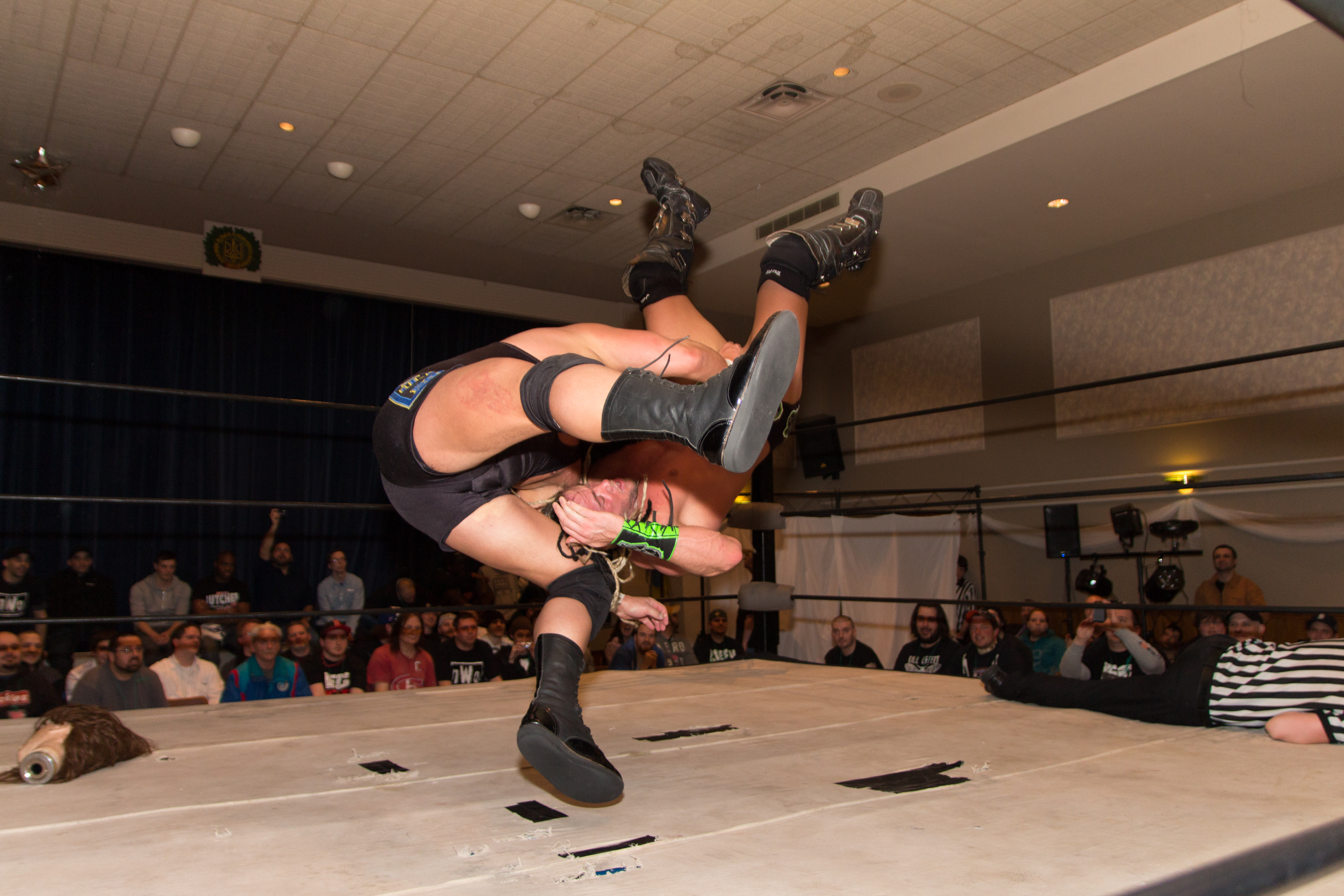 Al Snow executing his "Snow Plow" finsher against Christian York at the Hardcore Roadtrip's Born 2B Wired show in London, ON